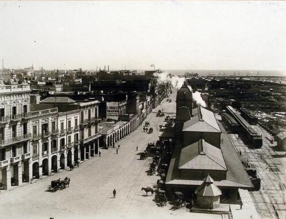 View of the Paseo de Julio Avenue (current Leandro N. Alem) since the Casa Rosada of Buenos Aires. On the centre of the image stayed the Estación Central of Buenos Aires & Enseneada Port Railway (destroyed by fire in 1897). At right, the area where the Madero port would be built years later.